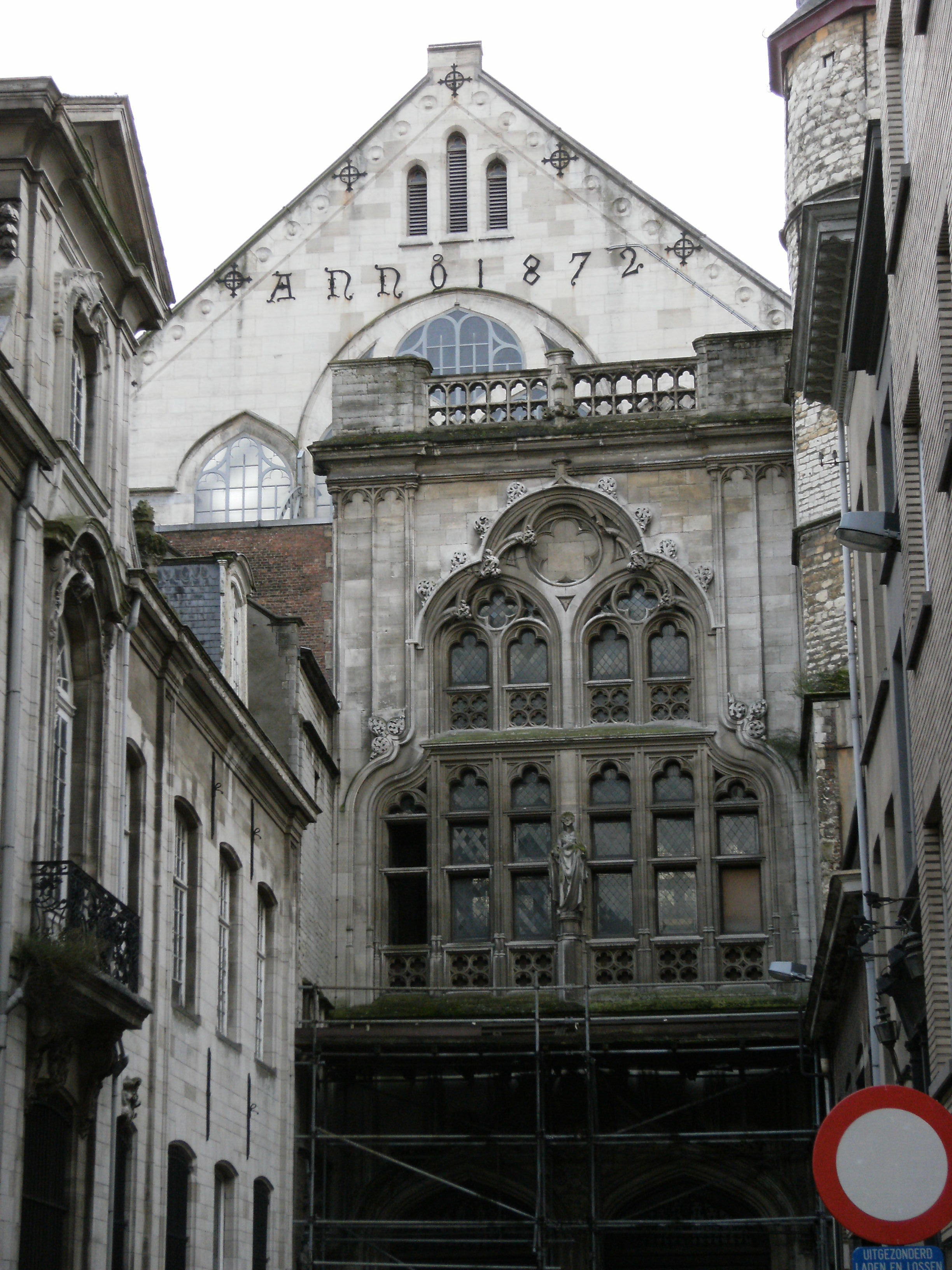 Antwerpen, Handelsbeurs (Stock Exchange), Borzestraat. (This is no church!) Gevel aan de Borzestraat.